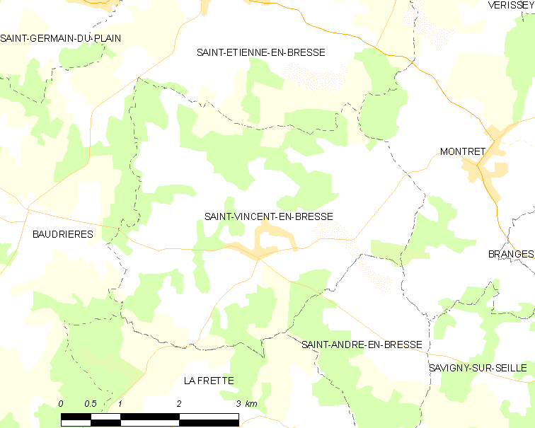 Map of French municipality